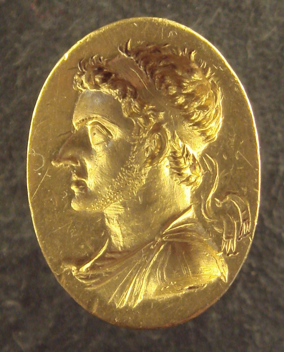 Ptolemy_VI_Philometor_ring